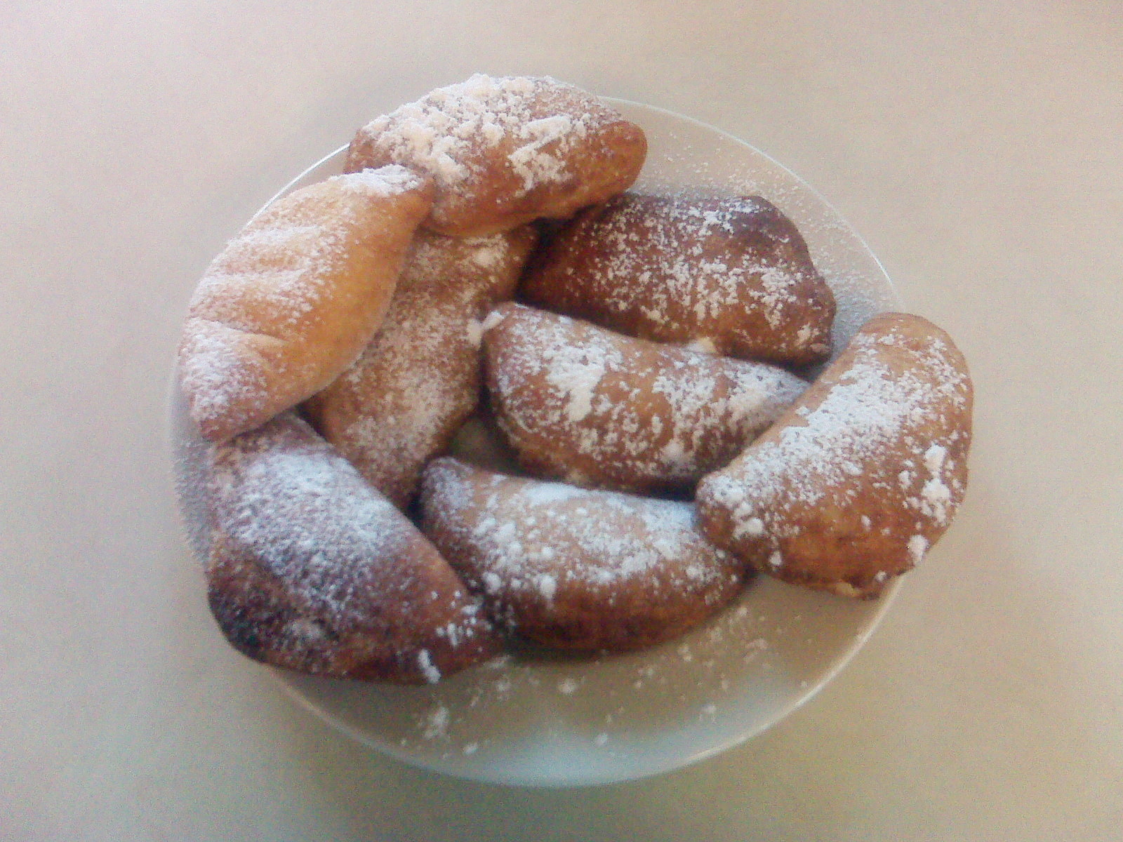 Fried apple pies from the John C. Campbell Folk School, Brasstown, NC, USA.